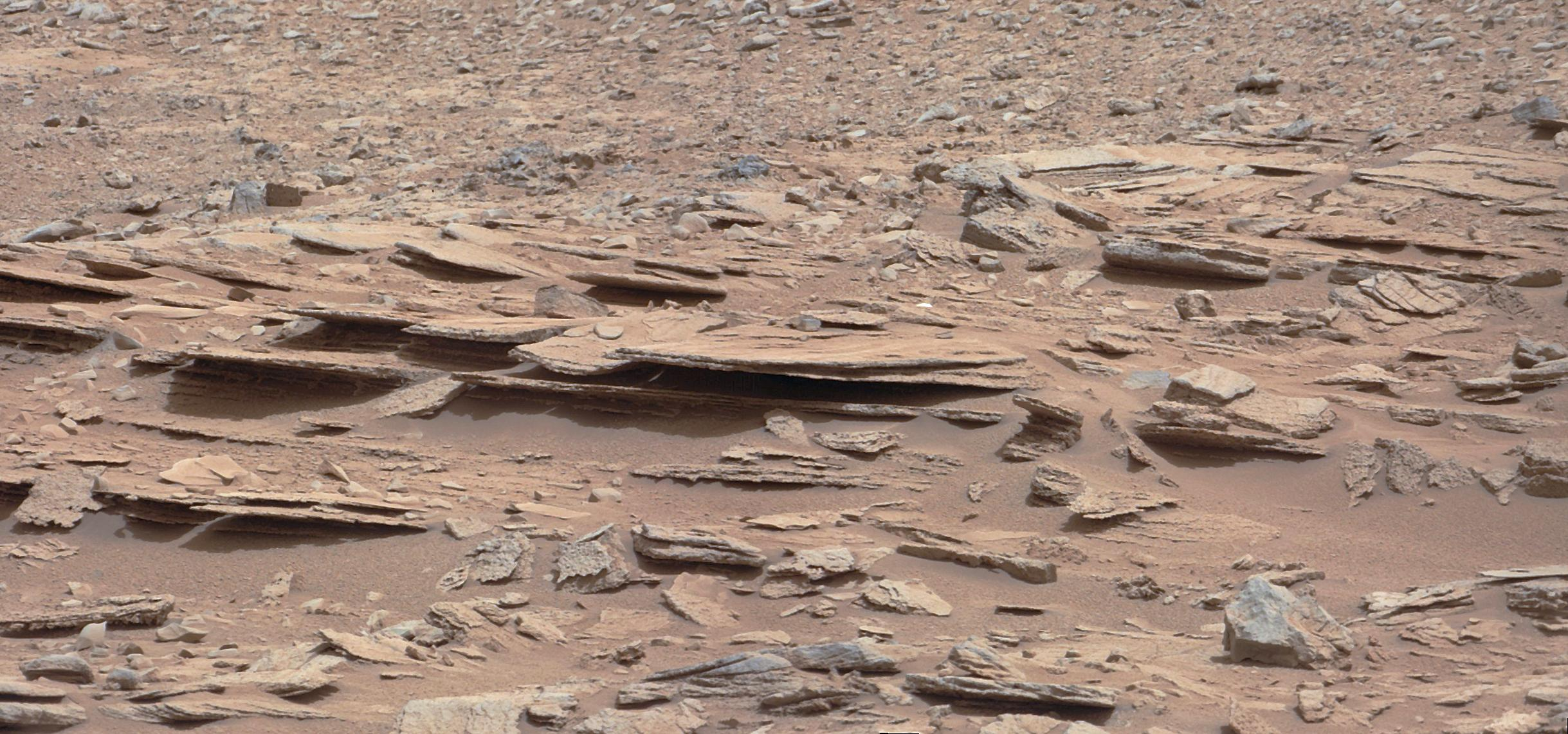 PIA16550: Layered Martian Outcrop 'Shaler' in 'Glenelg' Area Target Name: Mars Is a satellite of: Sol (our sun) Mission: Mars Science Laboratory (MSL) Spacecraft: Mars Science Laboratory (MSL) Instrument: Mastcam Product Size: 2438 x 1141 pixels (width x height) Produced By: Malin Space Science Systems Full-Res TIFF: PIA16550.tif (8.349 MB) Full-Res JPEG: PIA16550.jpg (481.8 kB) Click on the image above to download a moderately sized image in JPEG format (possibly reduced in size from original) Original Caption Released with Image: Figure 1 Figure 2 Click on an individual image for larger views The NASA Mars rover Curiosity used its Mast Camera (Mastcam) during the mission's 120th Martian day, or sol (Dec. 7, 2012), to record this view of a rock outcrop informally named "Shaler." The outcrop's striking layers, some at angles to each other in a pattern called crossbedding, made it a target of interest for the mission's science team. The site is near where three types of terrain meet at a place called "Glenelg," inside Gale Crater. The area covered by the image spans about 3 feet (90 centimeters) in the foreground. Figure 1 includes a 10-centimeter (4-inch) scale bar. The image has been white-balanced to show what the rock would look like if it were on Earth. Figure 2 is a raw-color version, showing what the rock looks like on Mars to the camera. Malin Space Science Systems, San Diego, developed, built and operates Mastcam. JPL, a division of the California Institute of Technology, Pasadena, manages the Mars Science Laboratory Project for NASA's Science Mission Directorate, Washington. JPL designed and built the project's Curiosity rover. For more about NASA's Curiosity mission, visit: and